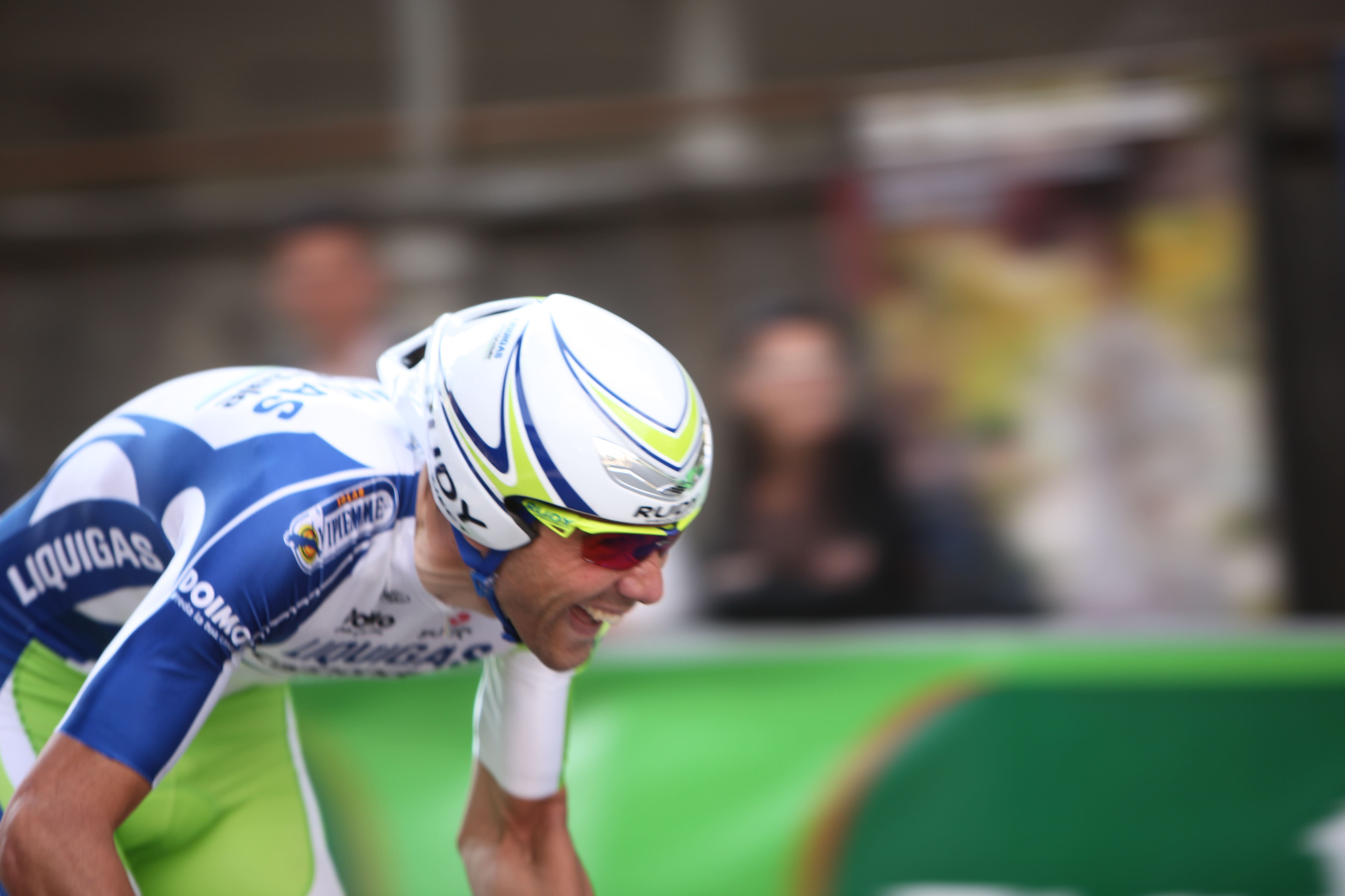 Paolo Longo Borghini at the prologue of the Tour de Romandie 2011